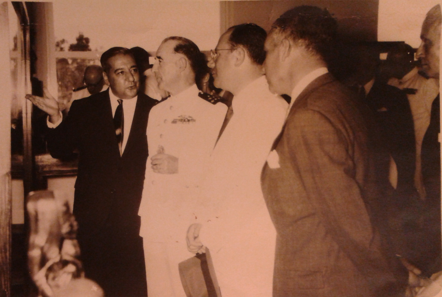 Adelino Joaquim Pereira Soares de Castro, Craveiro Lopes and Raul Ventura in Nampula Mozambique